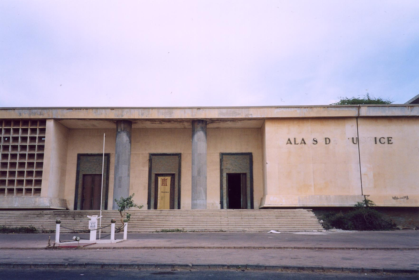 Dakar Biennale 2004. Former court building in Dakar. Photo by Iolanda Pensa.